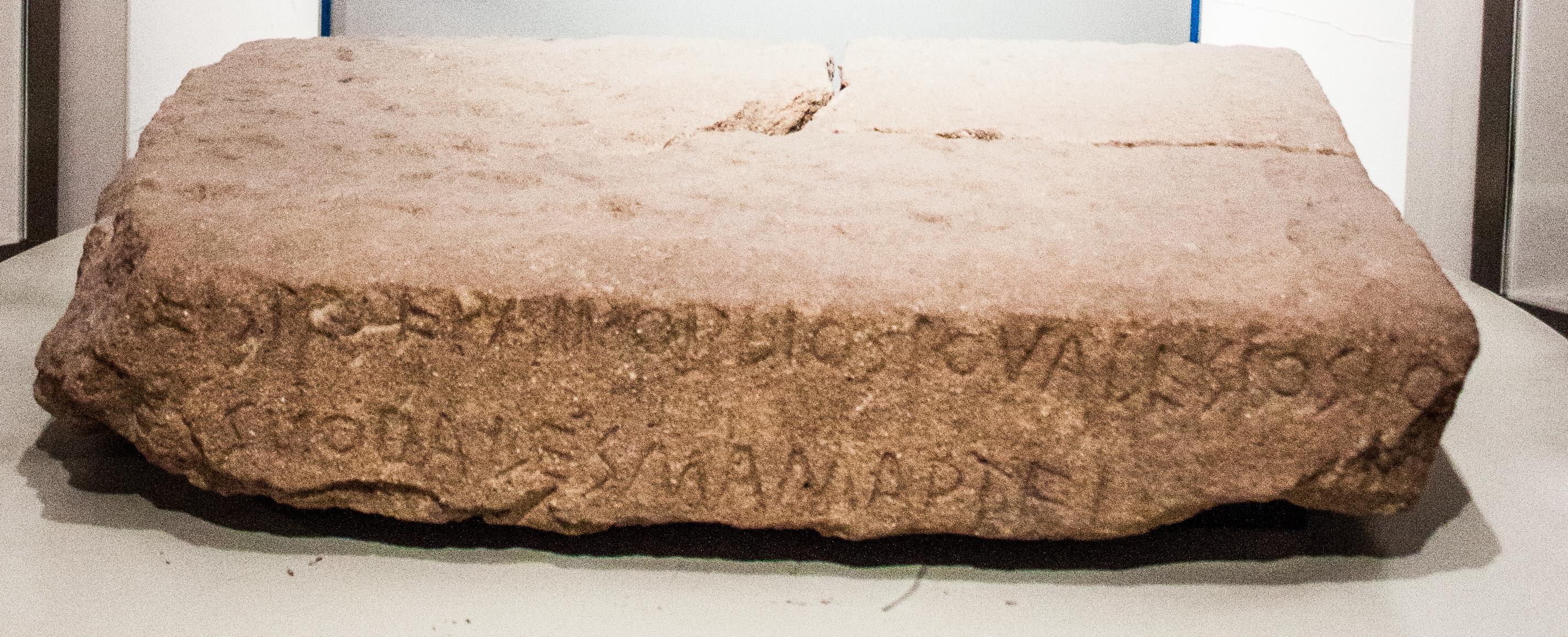 Stone slab with inscription from the temple of Mother Matuta in Satricum